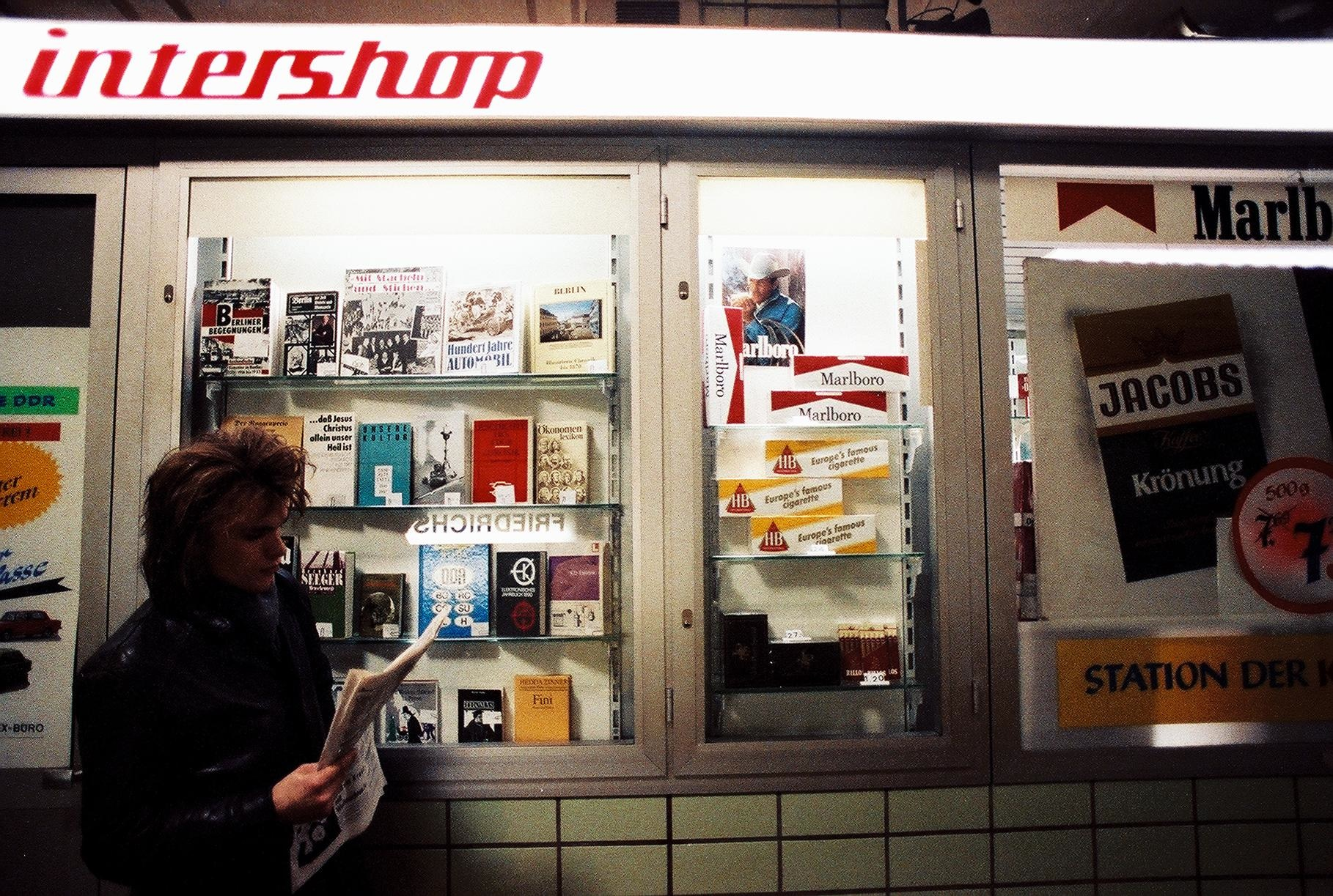 An intershop at trainstation Berlin Friedrichstraße.